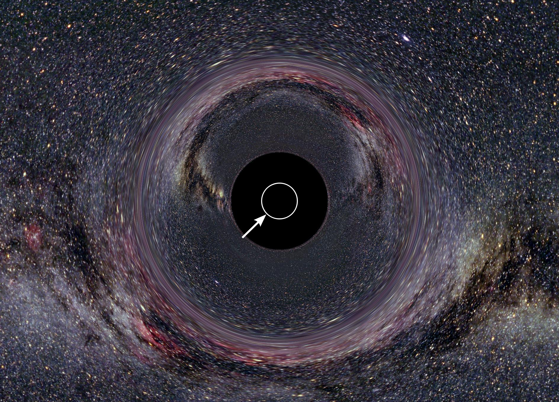 Illustration of the event horizon (Schwarzschild radius)